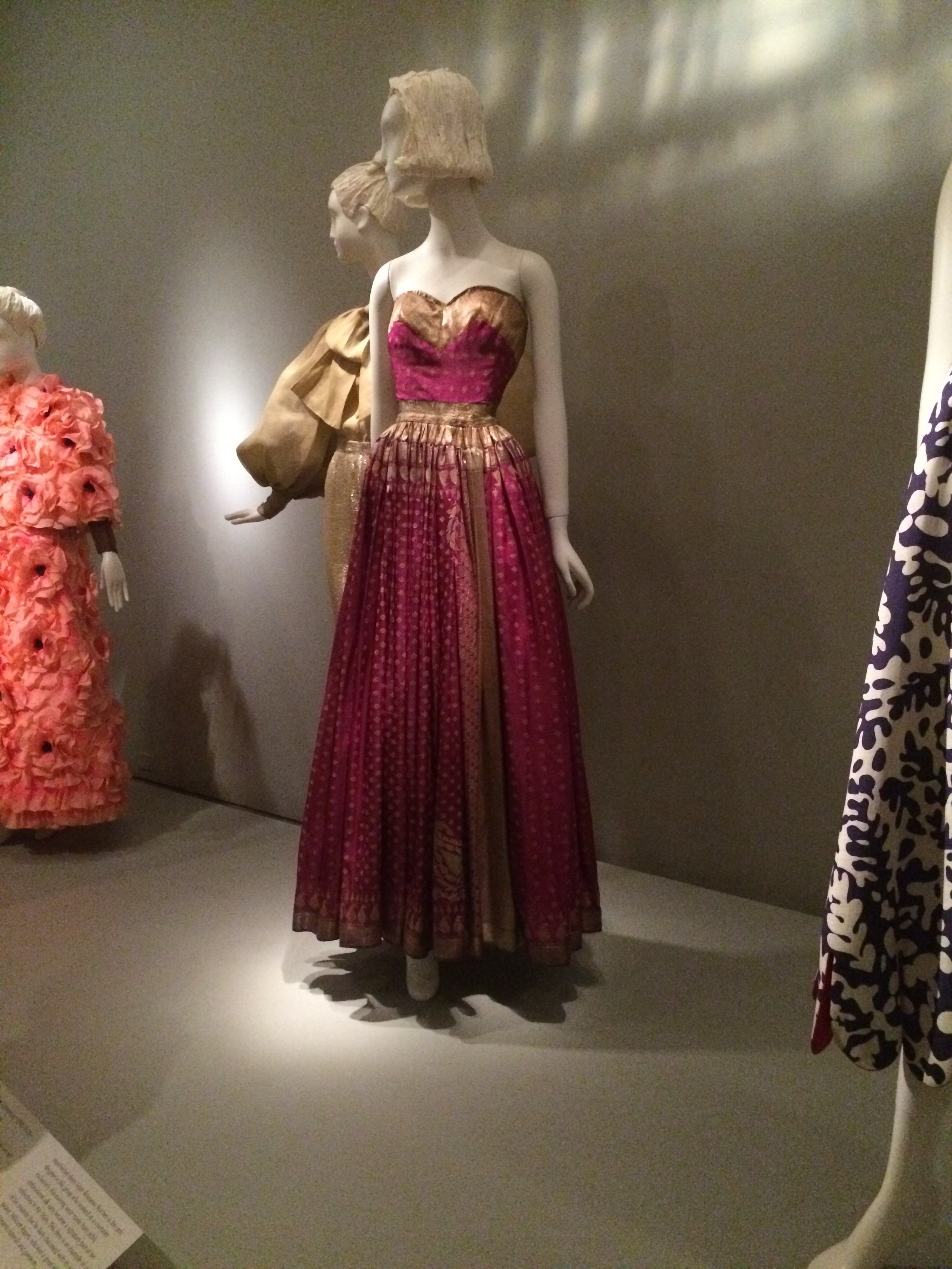 Mainbocher, evening dress, 1950.Purple silk sari fabric brocaded with a gold metallic leaf and paisley pattern.From the Brooklyn Museum Costume Collection at the Metropolitan Museum of Art, exhibited during High Style: The Brooklyn Museum Costume Collection at the Legion of Honor Museum, San Francisco.Brooklyn Museum Costume Collection at The Metropolitan Museum of Art, Gift of the Brooklyn Museum, 2009; Gift of Arturo and Paul Peralta Ramos, 1954. source]